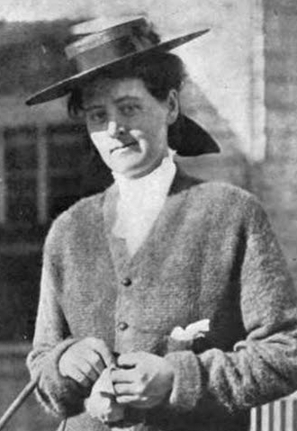 A white woman standing outdoors, wearing a small straw hat and a cardigan with a pocket.